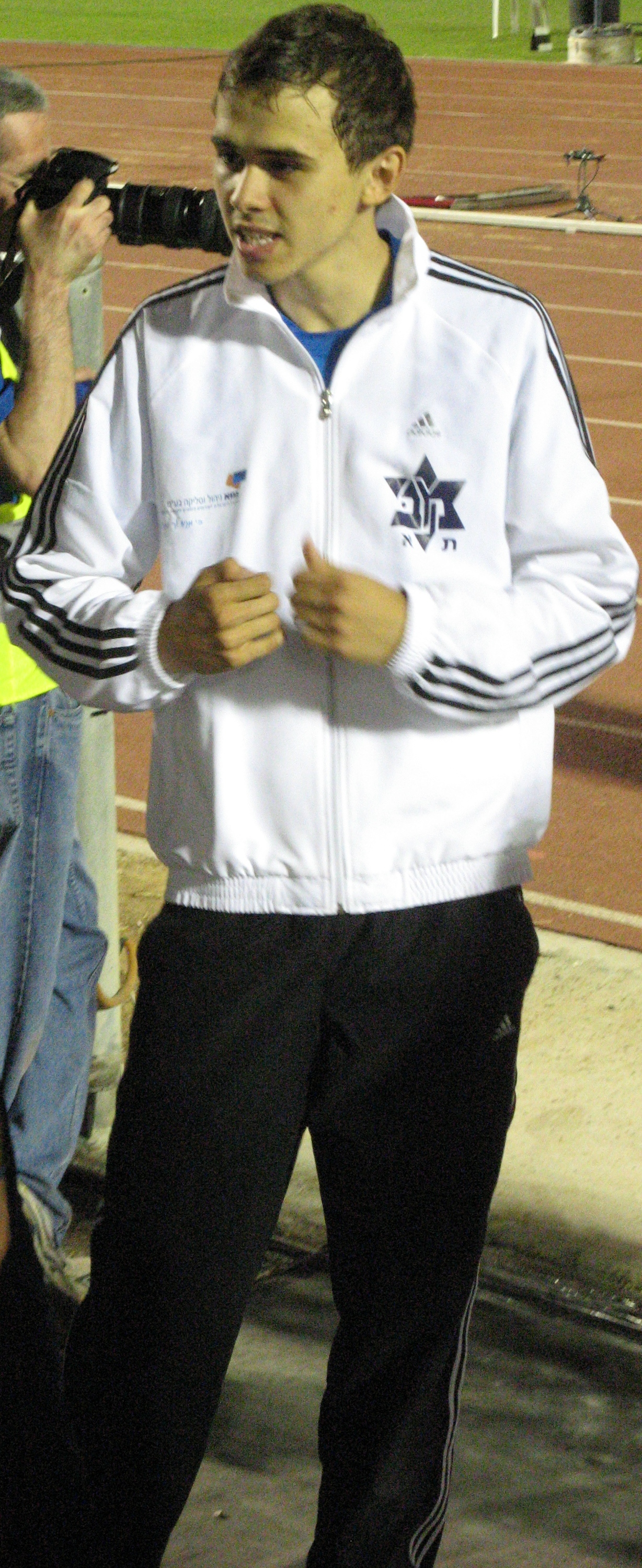 The Israeli high jumper Dmitry Kroyter during the 1st day of the Israel track and field championship 2011